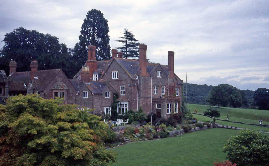 Dinmore Manor near to Westhope, Herefordshire, Great Britain.